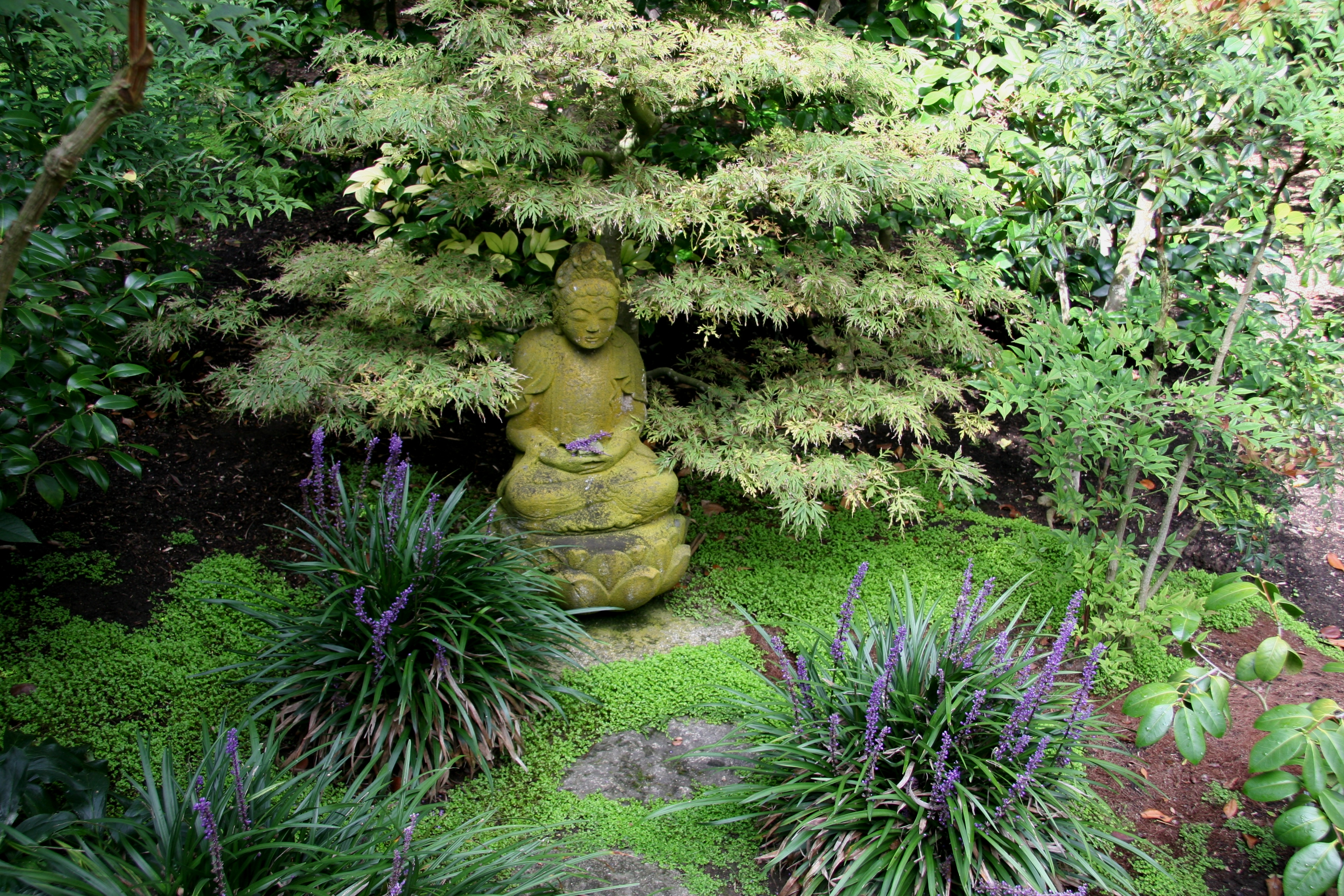 Stone Buddha statue in the 'Japanese Garden' of Lotusland. Historic gardens located in Montecito, near Santa Barbara, in southern California. Credits Photographed at Lotusland Santa Barbara, California; 15 Sep 2006. Northwest Horticulture Society Santa Barbara Tour : Japanese Garden i091506 041